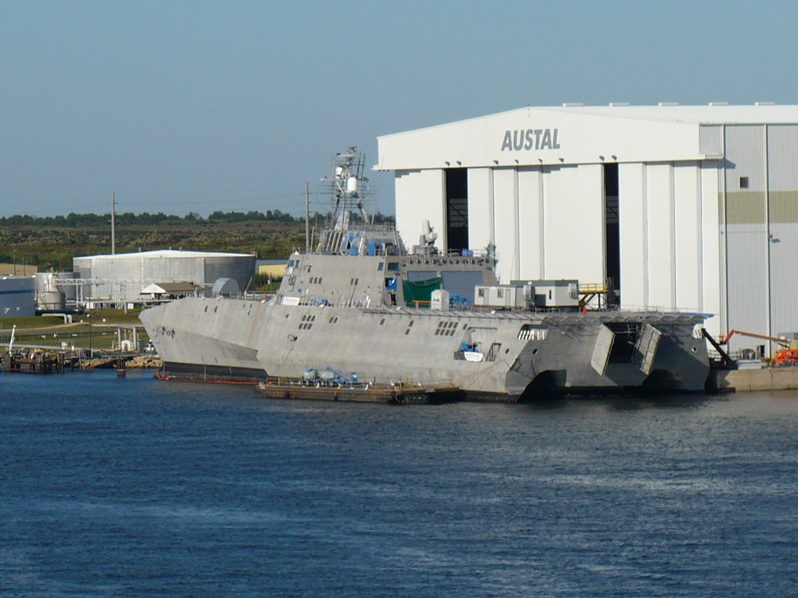 Rear/side view of the USS Independence (LCS-2) at the Austal USA shipyards along the Mobile River in Mobile, Alabama. Photo taken from aboard the MS Holiday.